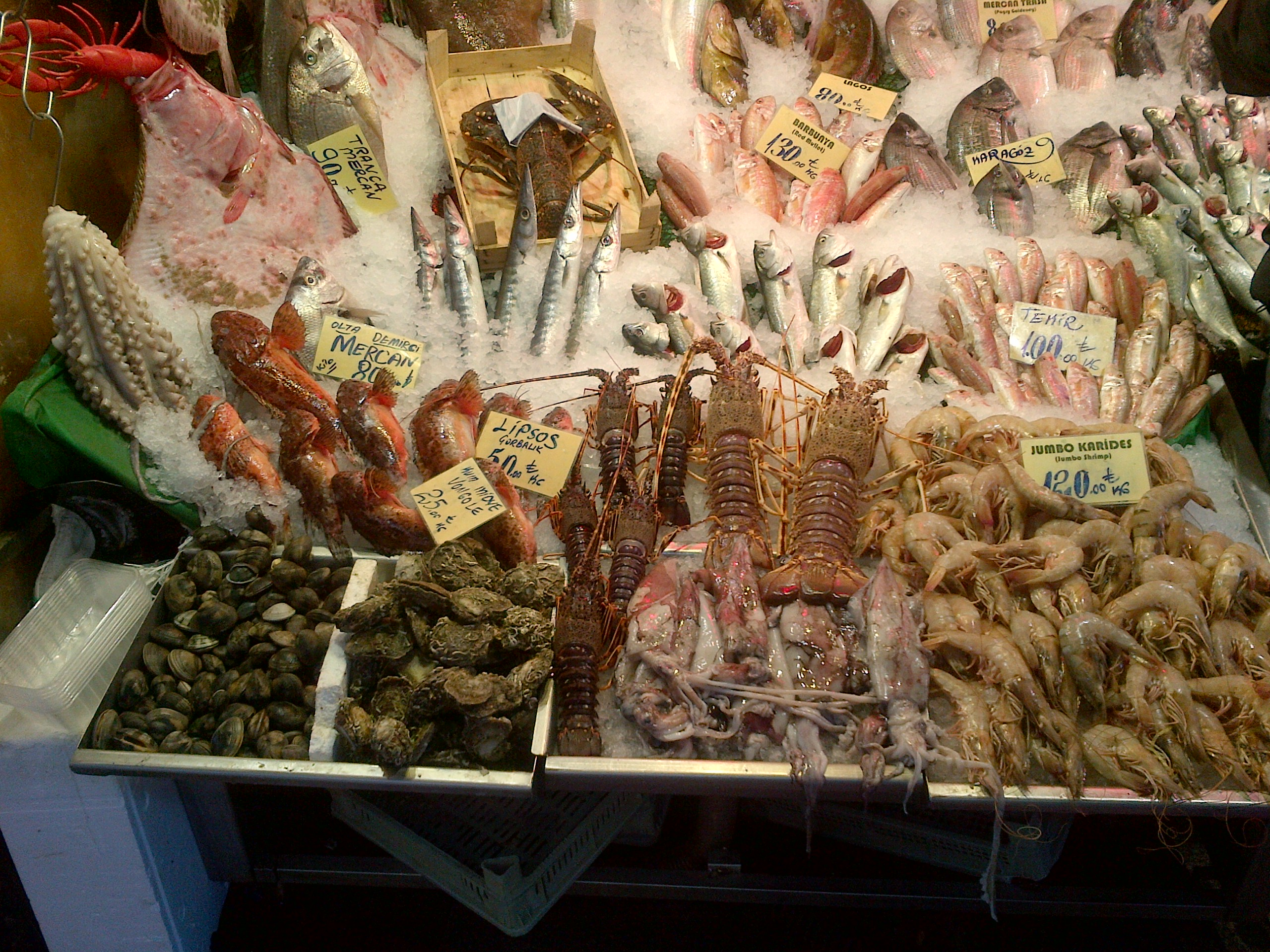 Fish and seafood of Turkey at the historic Kadıköy Marketplace (Tarihi kadıköy Çarşısı).